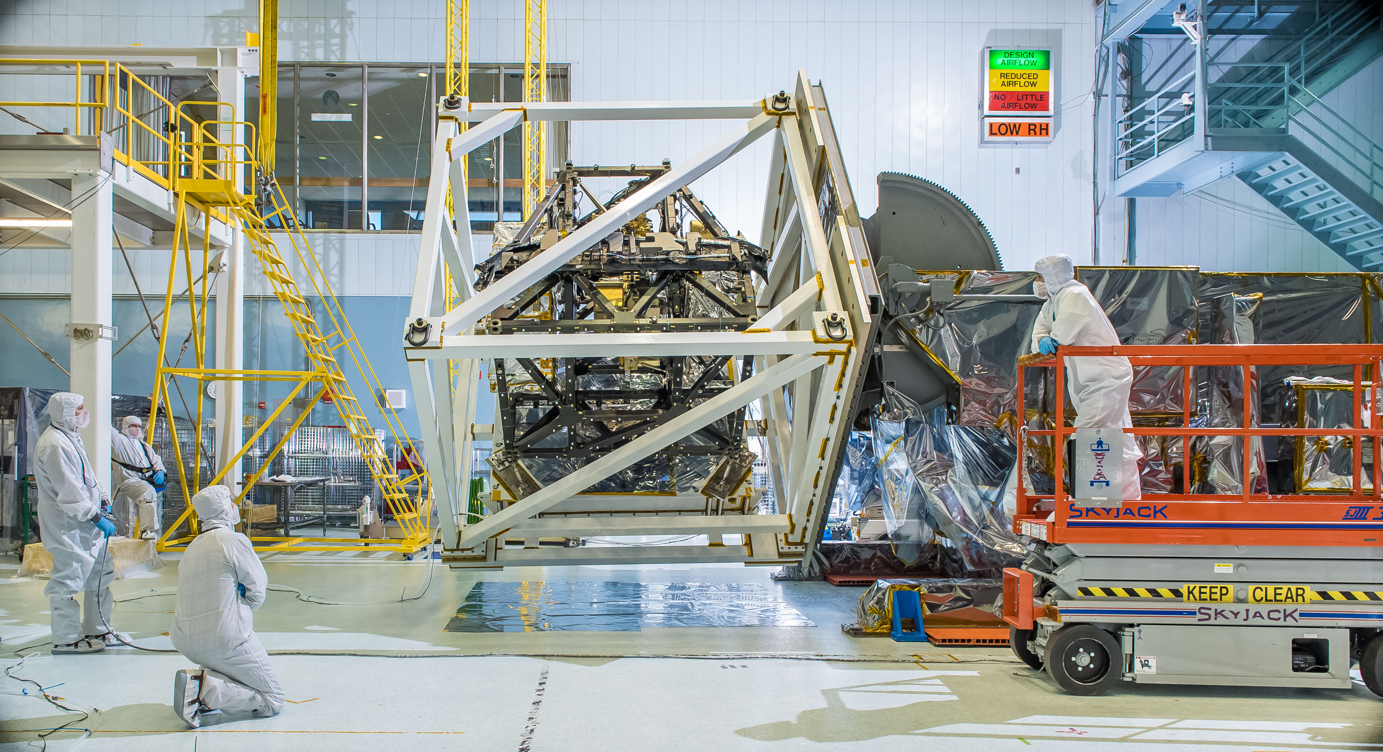 The James Webb Space Telescope's ISIM structure recently endured a "gravity sag test" as it was rotated in what looked like giant cube in a NASA clean room. The Integrated Science Instrument Module (ISIM) that will fly on the Webb telescope was rotated upside down inside a cube-like structure in the cleanroom at NASA's Goddard Space Flight Center in Greenbelt, Maryland. The purpose of "cubing" the ISIM was to test it for "gravity sag," which is to see how much the structure changes under its own weight due to gravity. The Integrated Science Instrument Module (ISIM) is one of three major elements that comprise the Webb Observatory flight system. The others are the Optical Telescope Element (OTE) and the Spacecraft Element (Spacecraft Bus and Sunshield). Read more: Credit: NASA/Goddard/Chris Gunn NASA image use policy. NASA Goddard Space Flight Center enables NASA’s mission through four scientific endeavors: Earth Science, Heliophysics, Solar System Exploration, and Astrophysics. Goddard plays a leading role in NASA’s accomplishments by contributing compelling scientific knowledge to advance the Agency’s mission. Follow us on Twitter Like us on Facebook Find us on Instagram